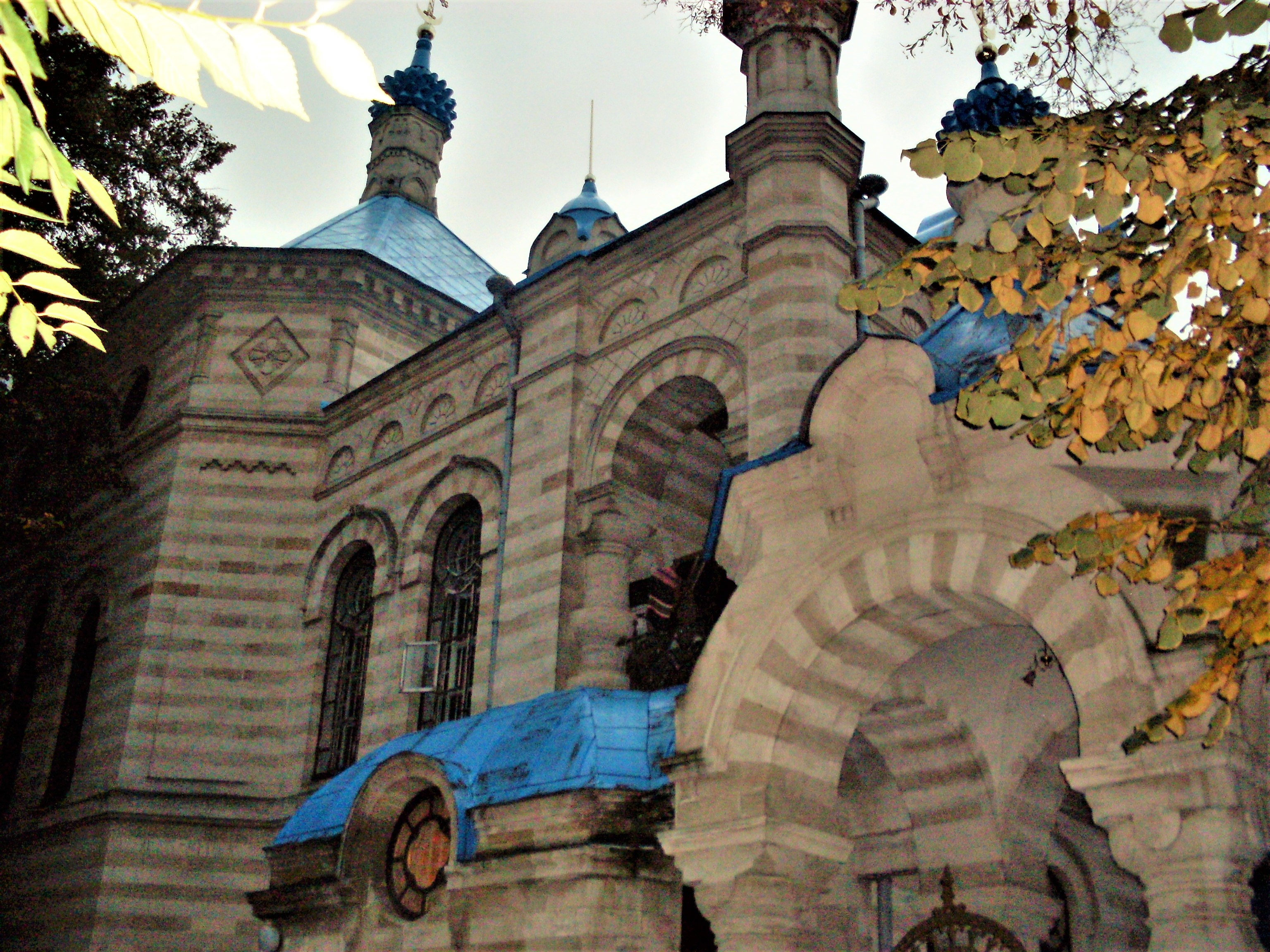 Stone Church of Saint Theodora from Sihla, by architect Al. Bernardazzi, is built in 1895 in Downtown Chişinău. Designed and built as a Cathedral of girls high school in Chişinău, the church of Saint Teodora de la Sihla is an architectural masterpiece by Al Bernardazzi. The building have the fingerprints of Byzantine style, typical for the creation of architect A. Bernardazzi. It is of national importance in Moldova and the owner is Metropolis of Bessarabia.